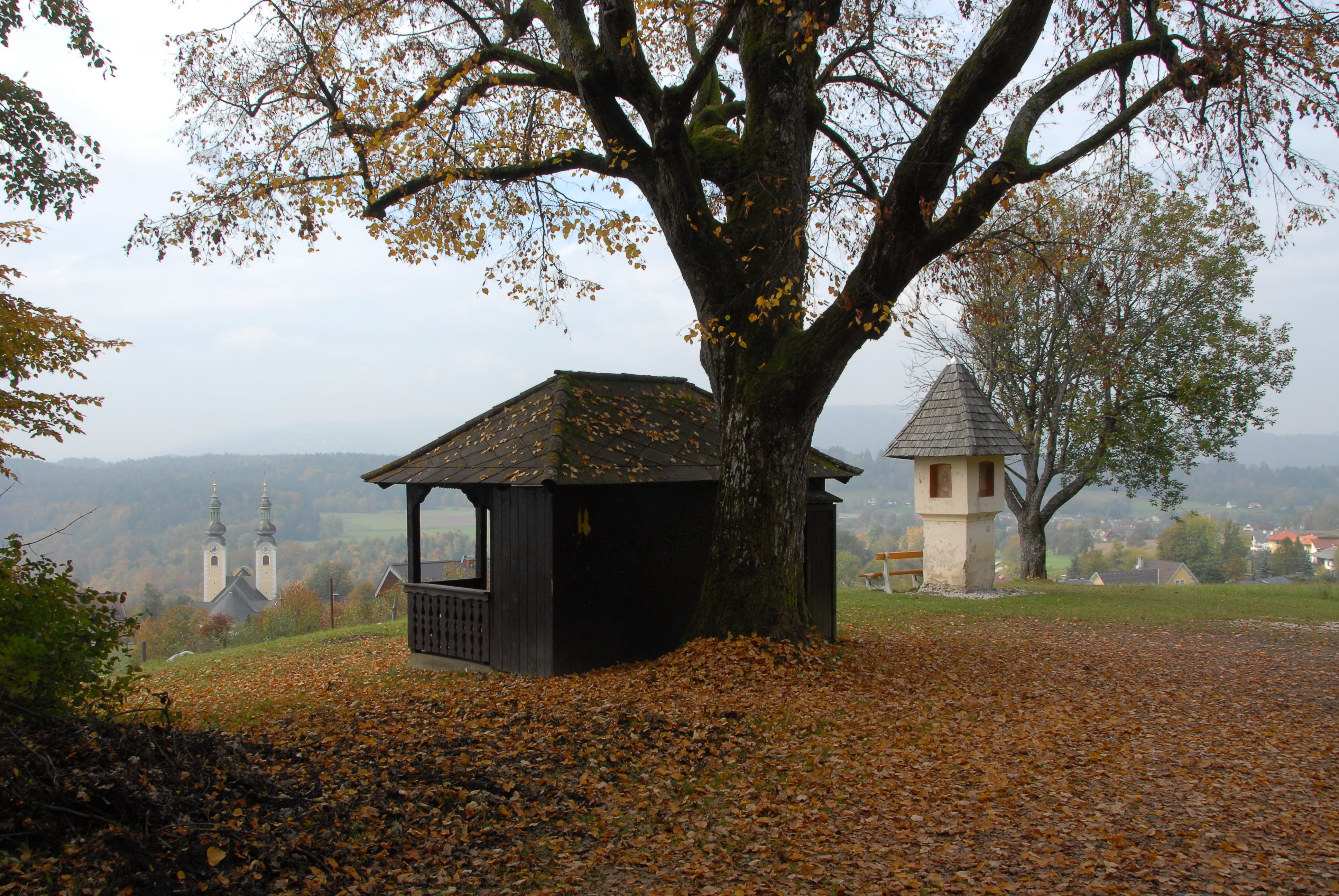 “Kaiserhuette”, municipality Maria Rain, district Klagenfurt-Land, Carinthia, Austria